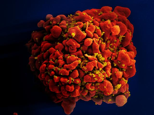 Scanning electron micrograph of an HIV-infected H9 T cell. Credit: NIAID